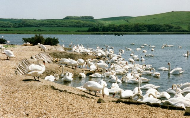 Abbotsbury Swannery. There has been a swannery at Abbotsbury since at least the 14th century.